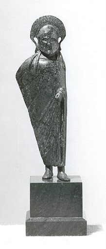 Bronze figure of a Spartan officer. 6th - 5th century B.C.